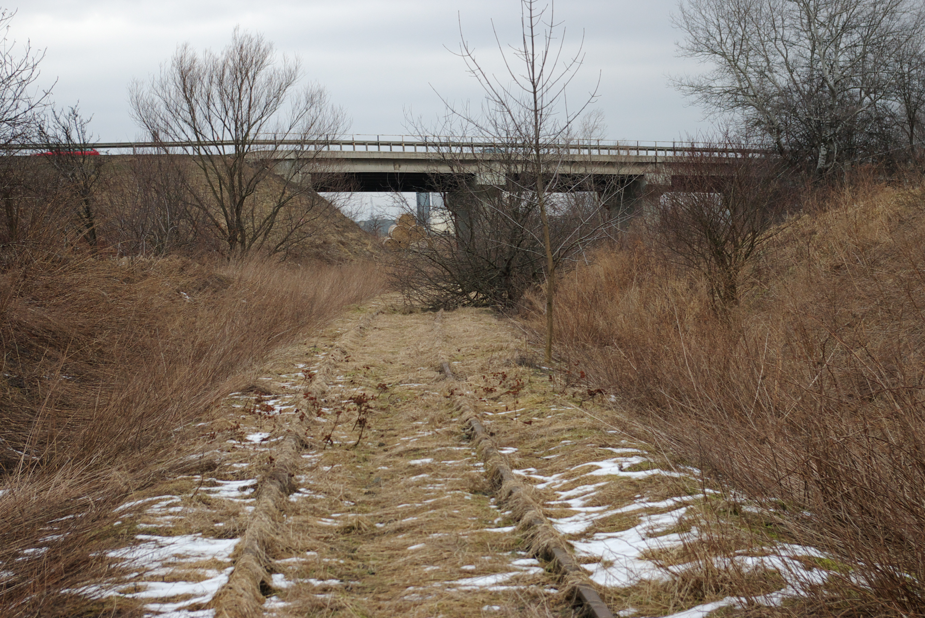 Railway Route 310 (Kobierzyce - Piława Górna). The picture taken in Niemcza, February 2011. The national road 8 visible in the background.